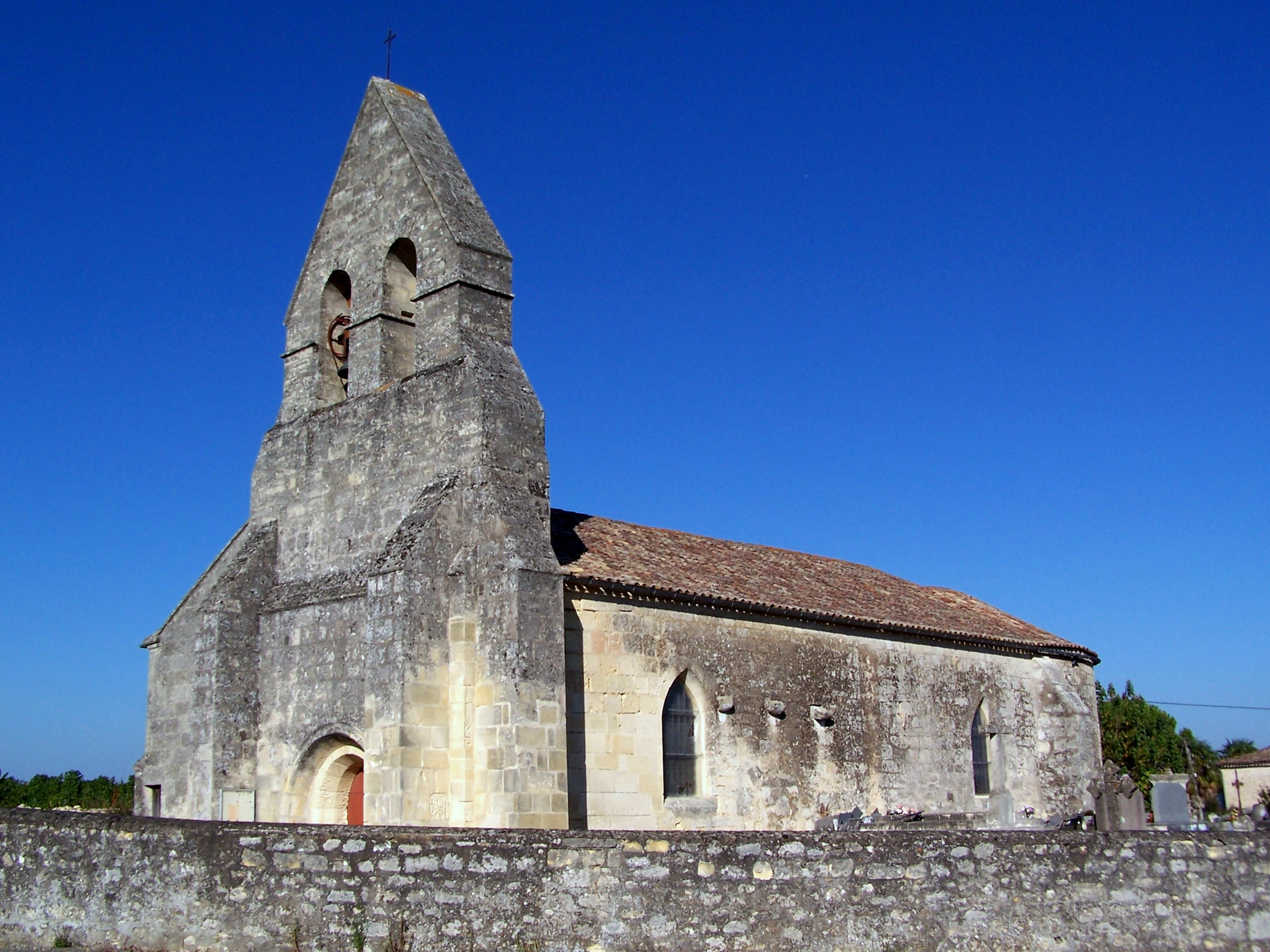 Our Lady church of Mérignas (Gironde, France)